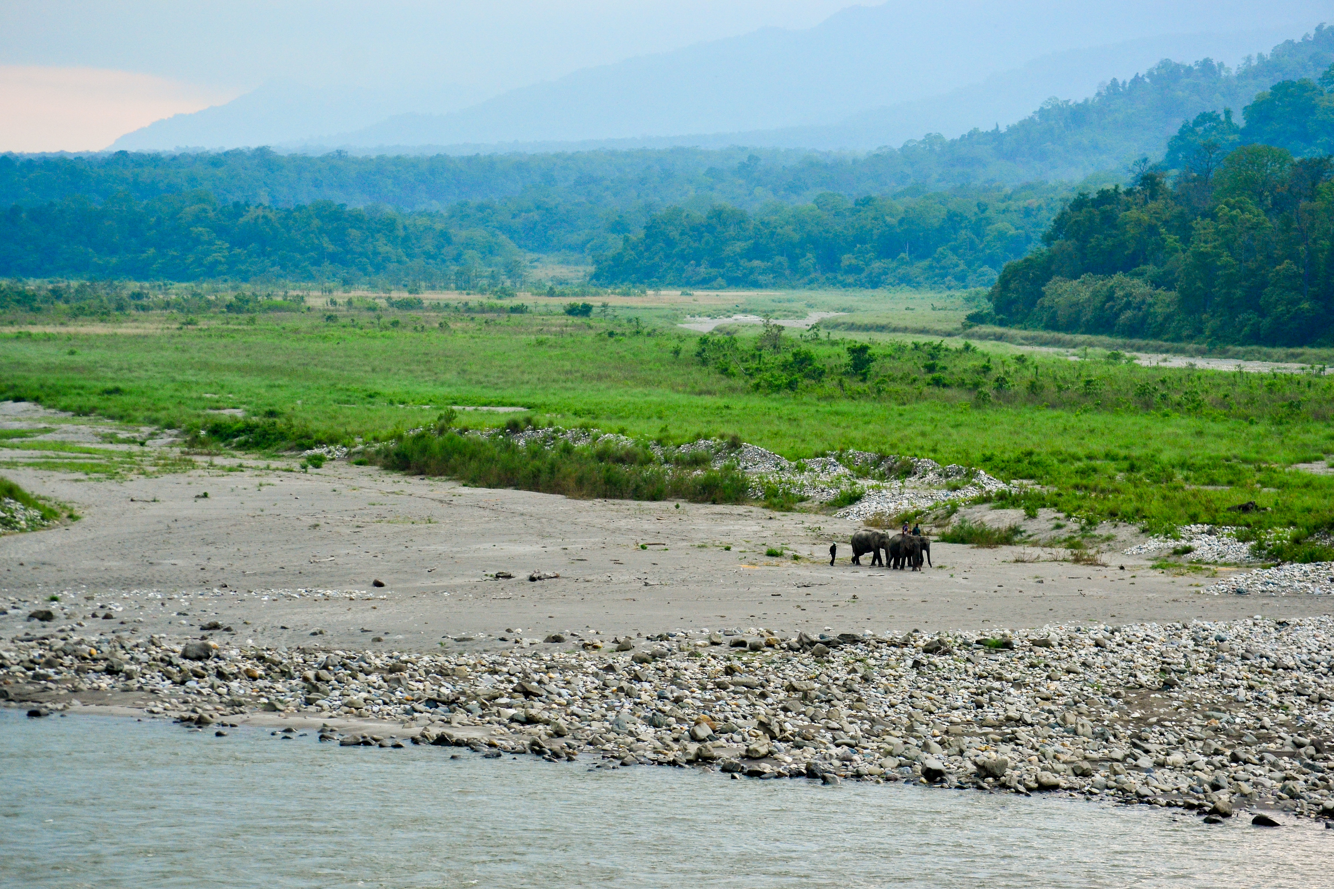 A landscape view of the foothills of the Himalayas alongside the Manas river with elephants taking a walk on its bank.